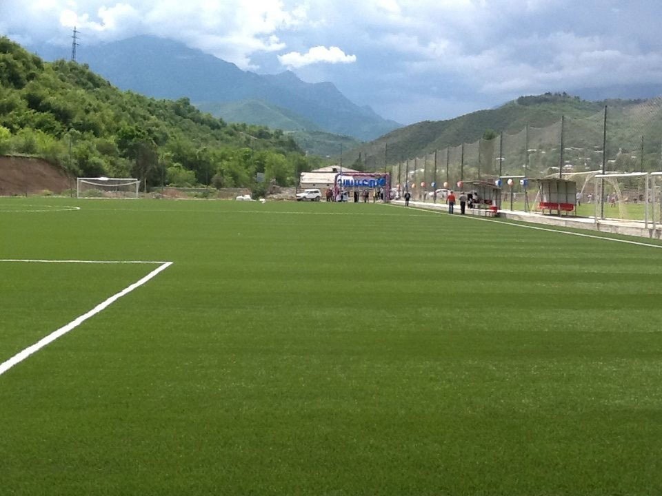 Gandzasar FC training academy, Kapan, Armenia.